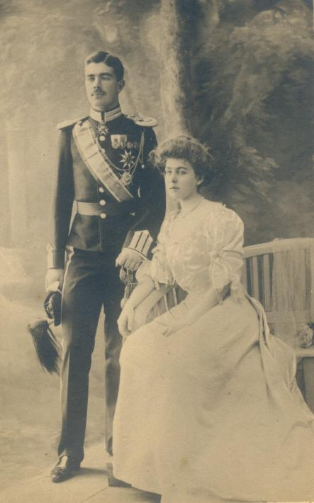 Crown Prince Gustaf Adolf (future King Gusatf VI Adolf) and Crown Princess Margaret of Sweden